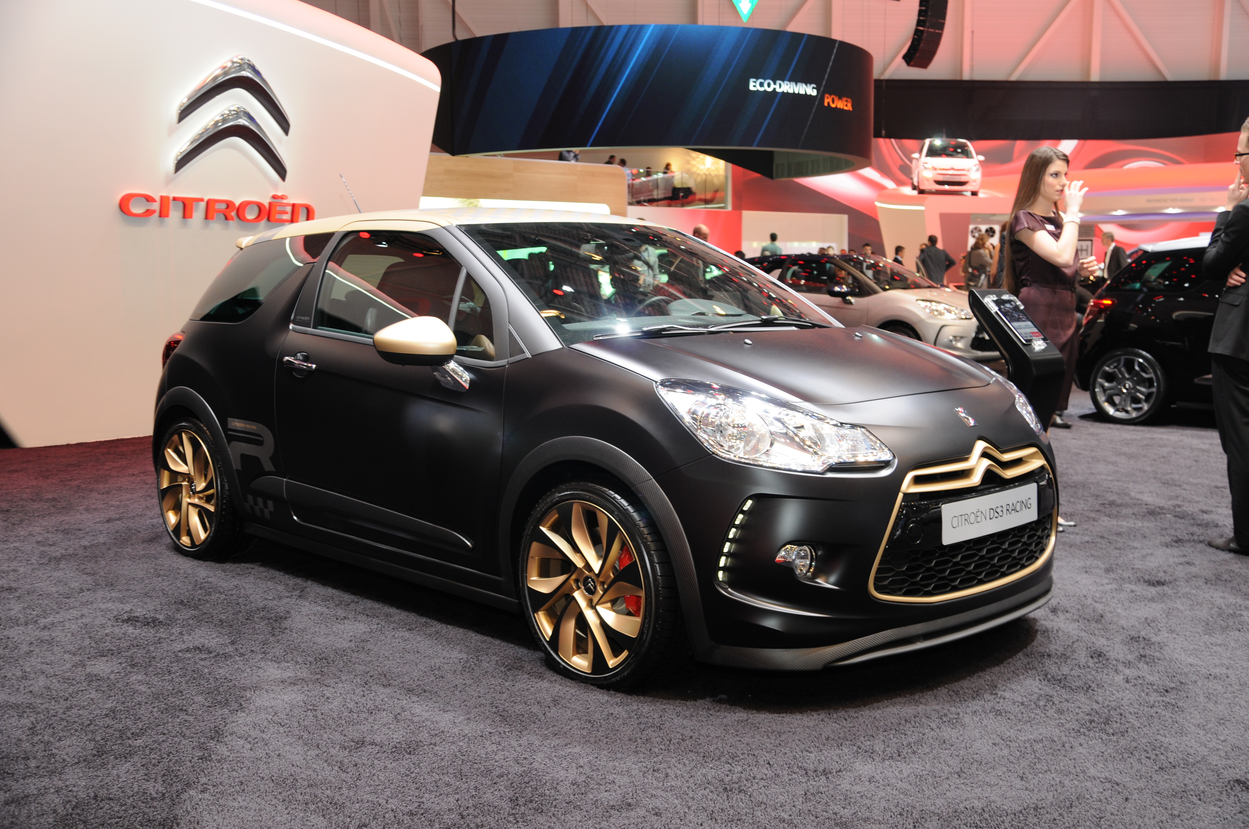 Geneva Motor Show 2013 (photos taken on the first press day)